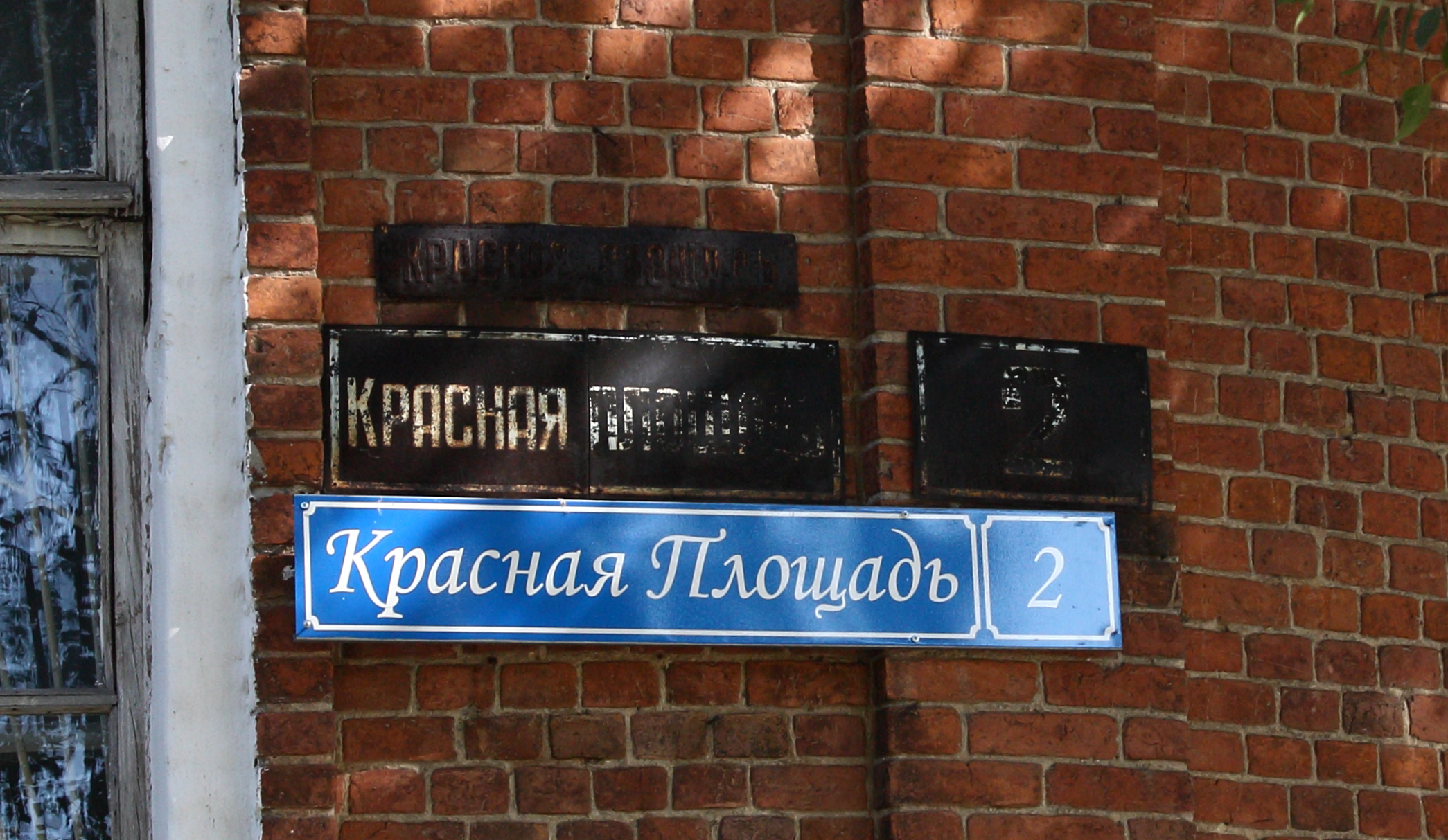 House number in Venyov, Red Square 2